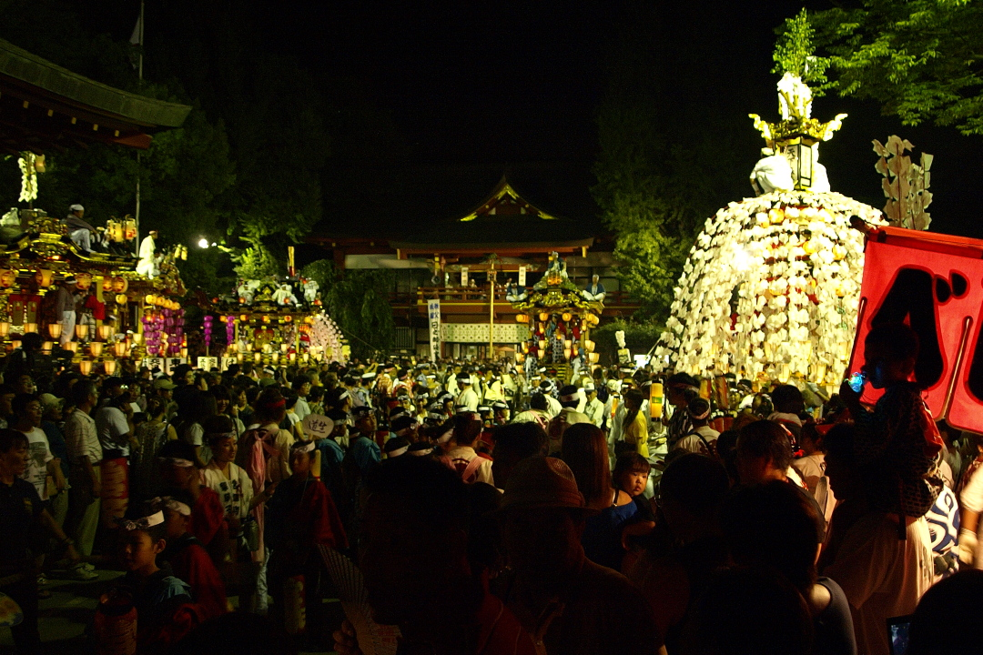 Chichibu Kawase Matsuri, a summer festival in the city of Chichibu, Japan.